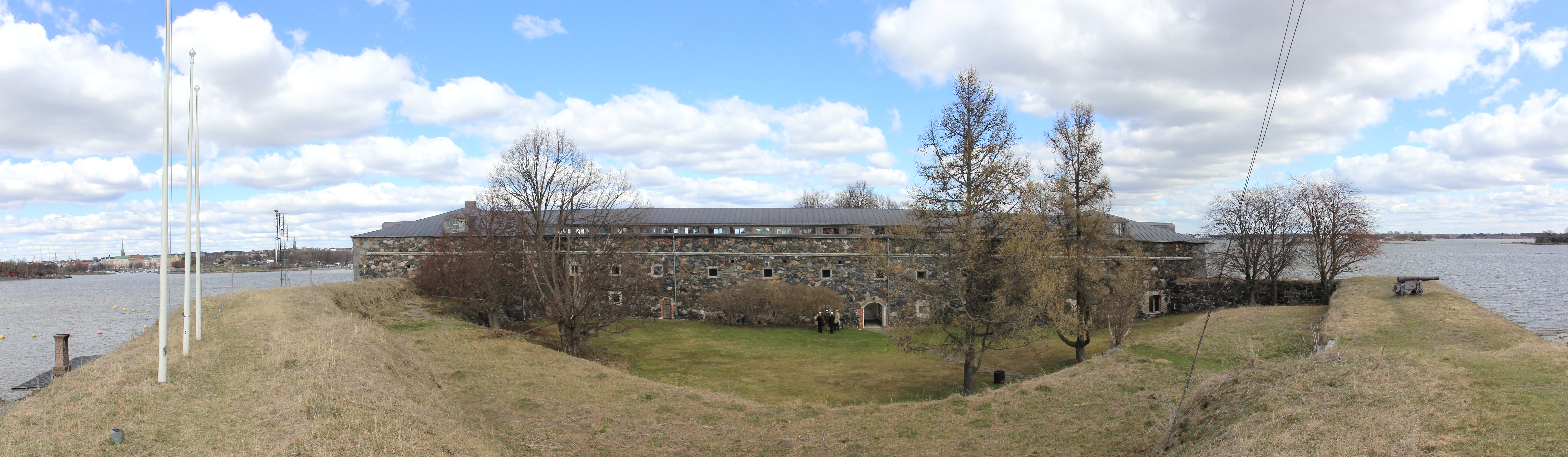 Panoramic view of Särkkä island fortifications from the south. Caponiers von Törne (left) and Gerdes connected with a curtain wall cut through the island from west to east. Panorama taken from bastion Liewen. The building houses a restaurant.